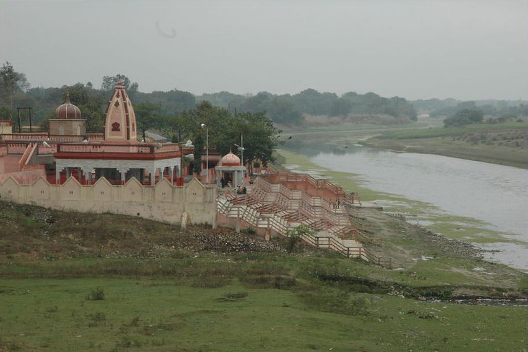 Author: arvind mishra. I look the picture in Oct 2010. I am releasing the image mata bela devi Mata Bela devi mather of any one in pratap garh arvind mishra kohandaur pbh